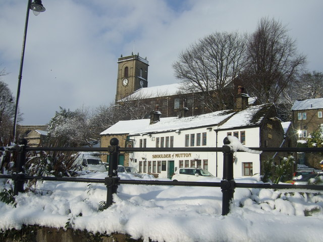 St James' parish church and the Shoulder of Mutton pub at Slaithwaite, West Yorkshire, seen from the southeast